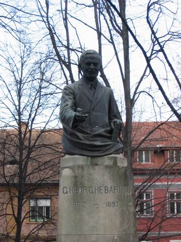 Made by me, December 2005